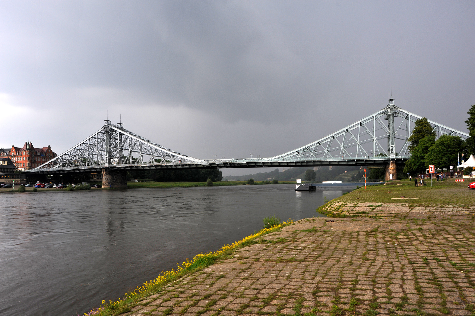 Blue Wonder in Dresden in front of a thunderstorm; Saxony, Germany.